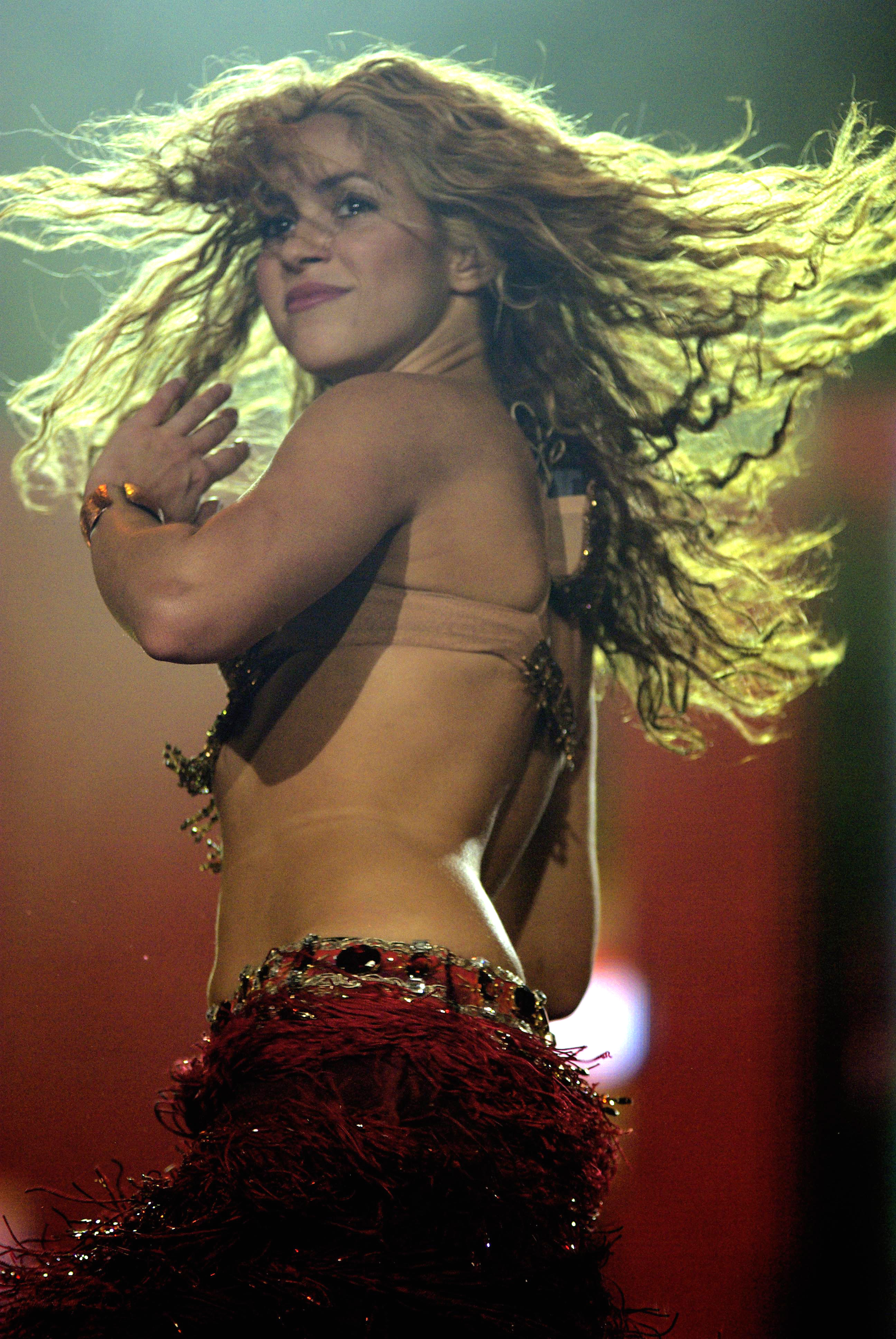 Shakira at Rock in Rio in Madrid